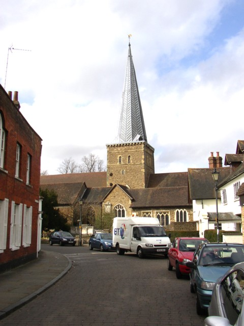 Church of St Peter and St Paul, Godalming. There are fragments of Saxon work, and the Normans built the central tower, on which is a lead spire of (probably) the 13C. This has a number of shallow V-sections formed from lead plates. The range of buildings in front of the tower are the south aisle, transept and south chapel, all added in the 12C and 13C. The church was extensively restored in the 19C.